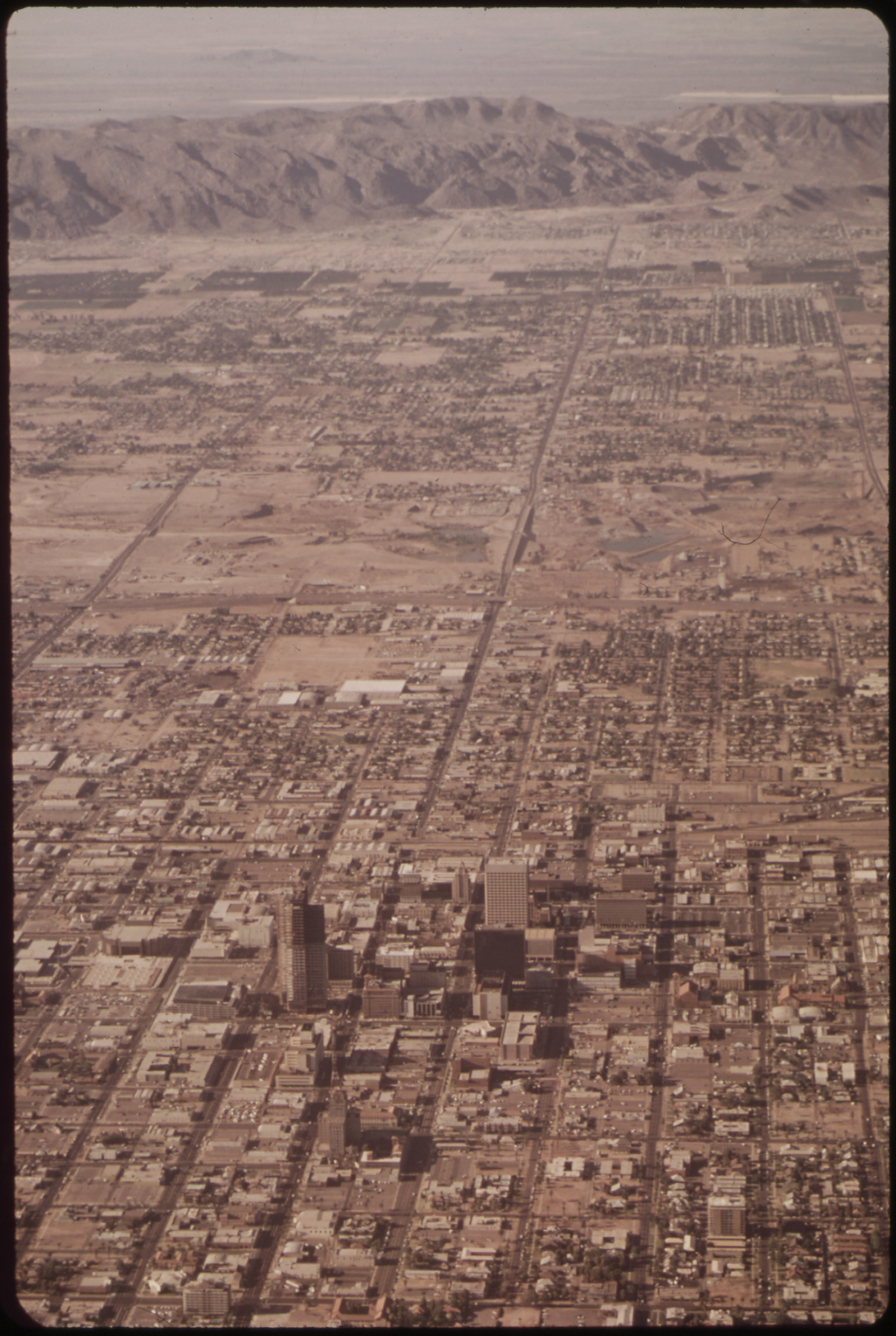 General notes: Aerial view of Phoenix, Arizona in 1972. Towers are in the Central City Village district, in downtown Phoenix, Arizona. With other Urban Villages of the City of Phoenix, in 1972 stages of development.